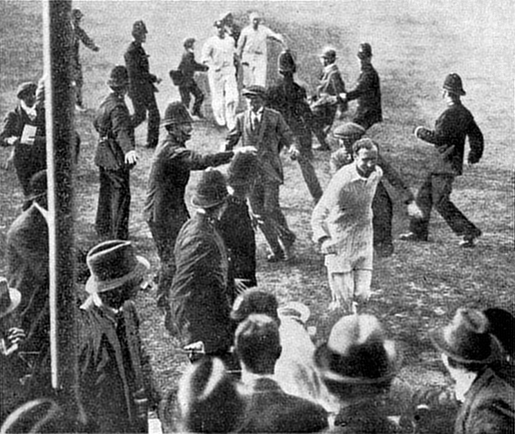 Percy Fender leading Surrey off the field having defeated Yorkshire in 1920